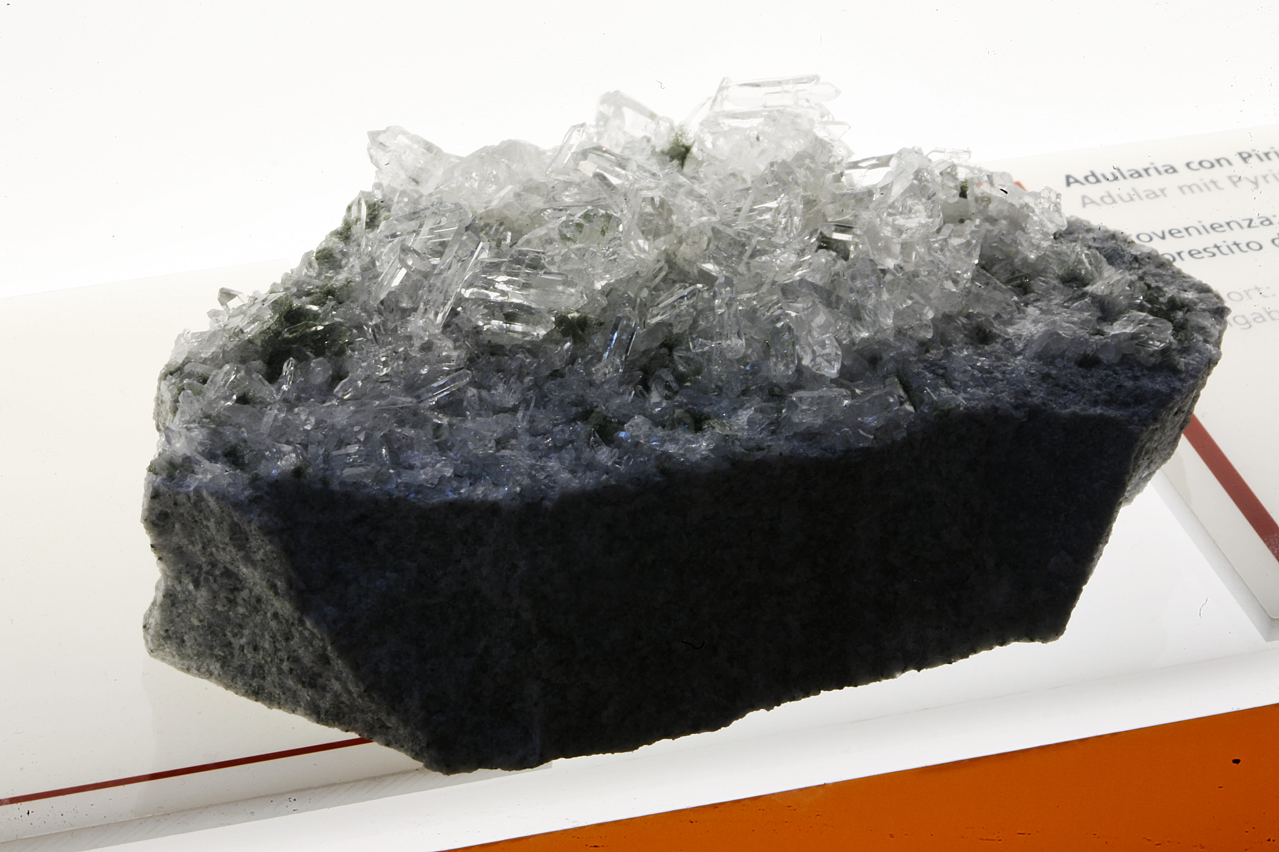 Pquartz. Photographed at Gotthard Base Tunnel exhibition.